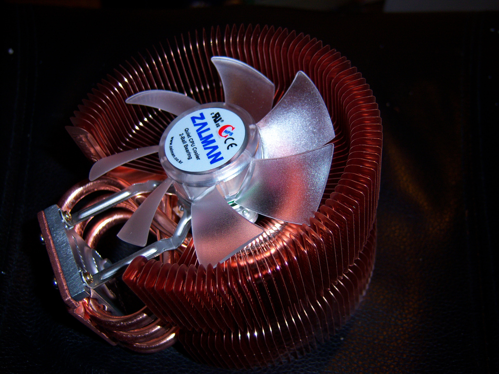 Image of Zalman cooler